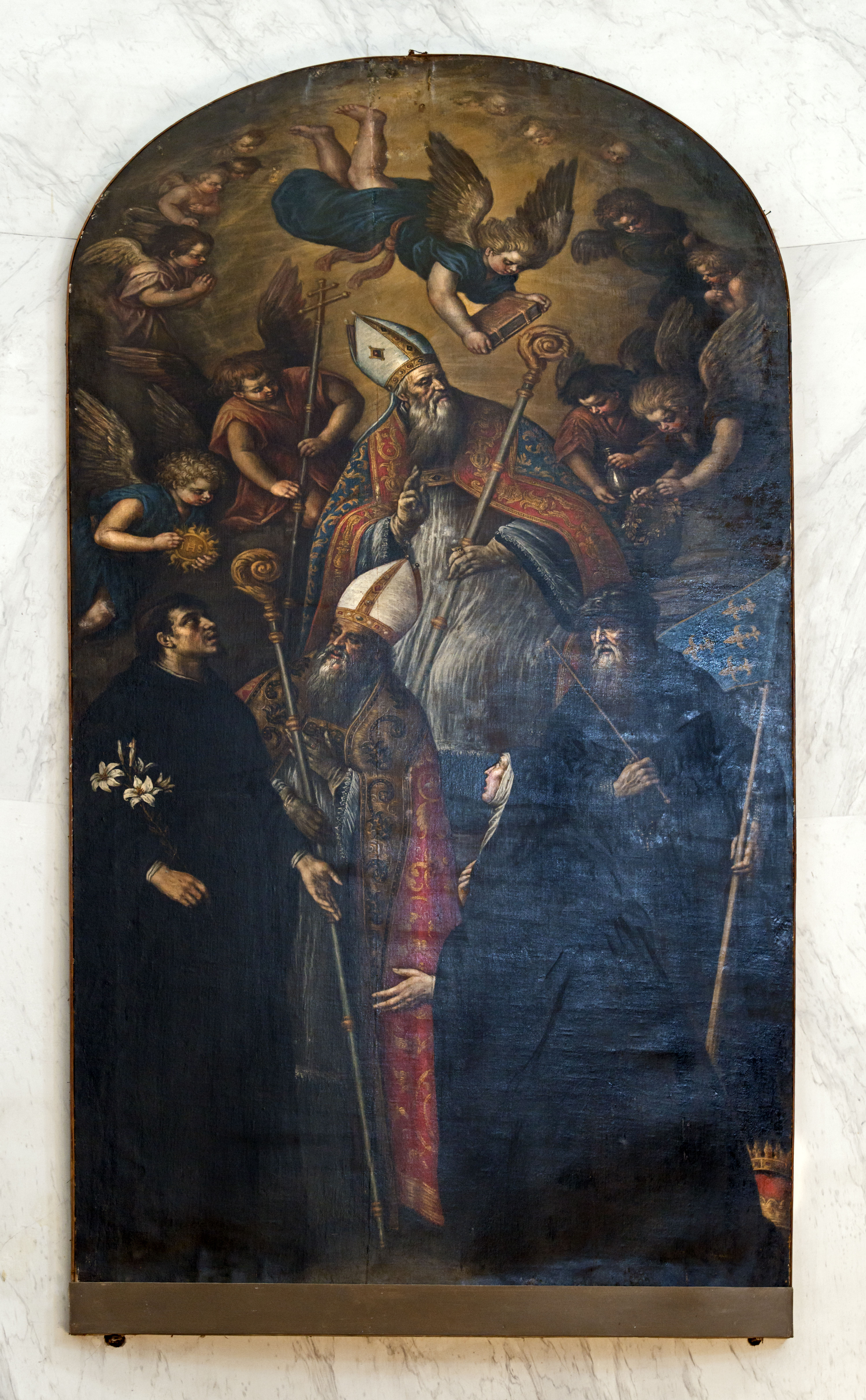 San Geremia Venice - San Agostino in gloria e santi. Nicholas of Tolentino, a bishop, Monica, Louis IX, king of France. Signed: Lean Bas Leandro dal Ponte said Leandro Bassano (pinting between 1619-22) - Pale altar of St. Augustine Church Dall'Annuciata demolished in 1860.